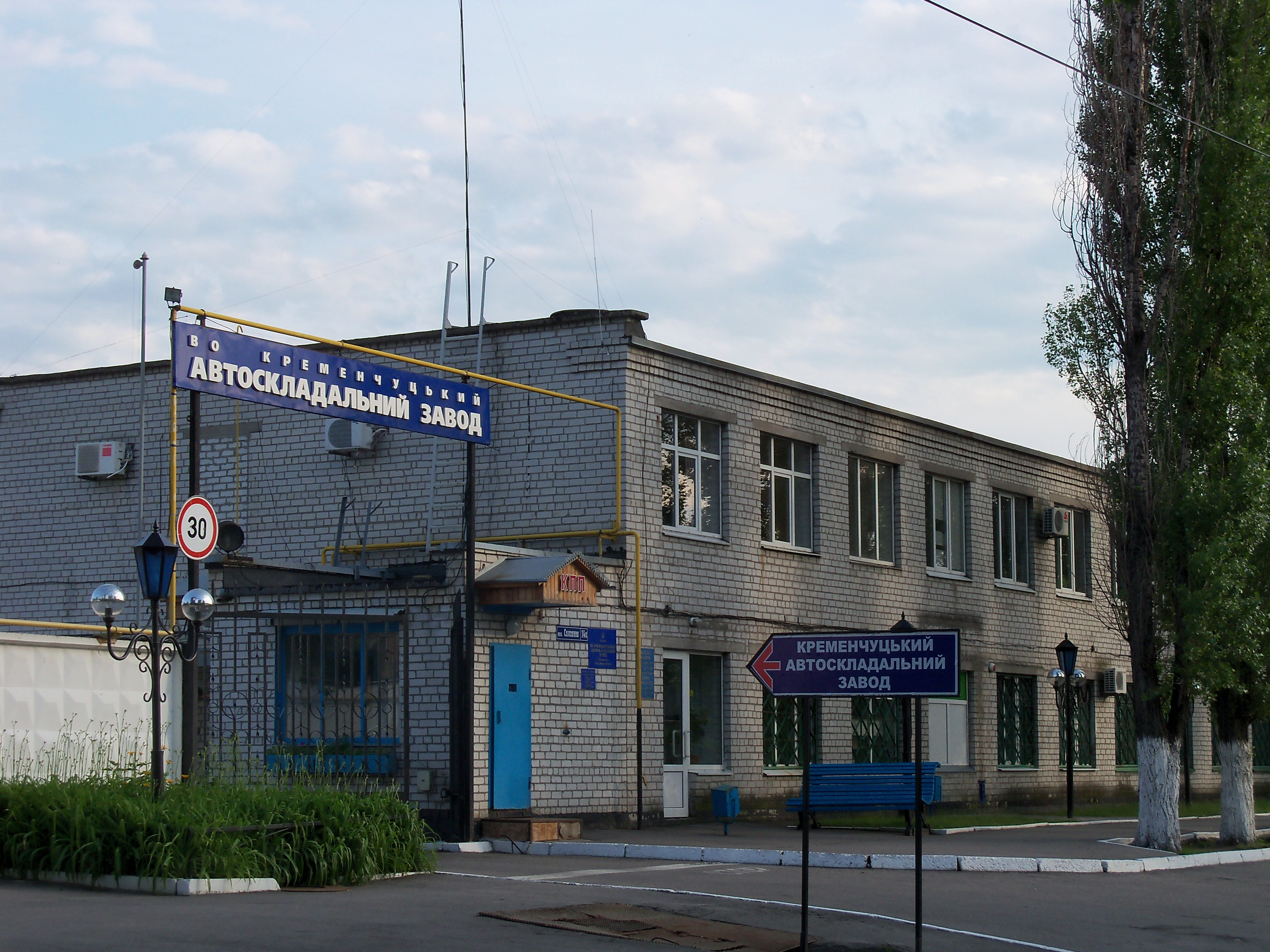 Enter to the Kremenchuk automobile assembling plant